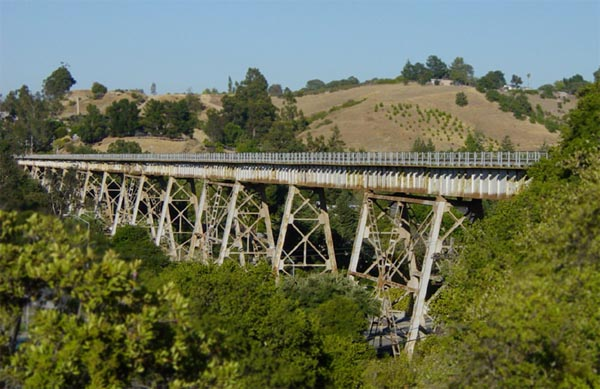 Alhambra creek railway trestle, Martinez, California. At the right terminus the railway enters a short tunnel. For the bridge article. Selectively blurred for JPEG size reduction. Image by User:Leonard G.